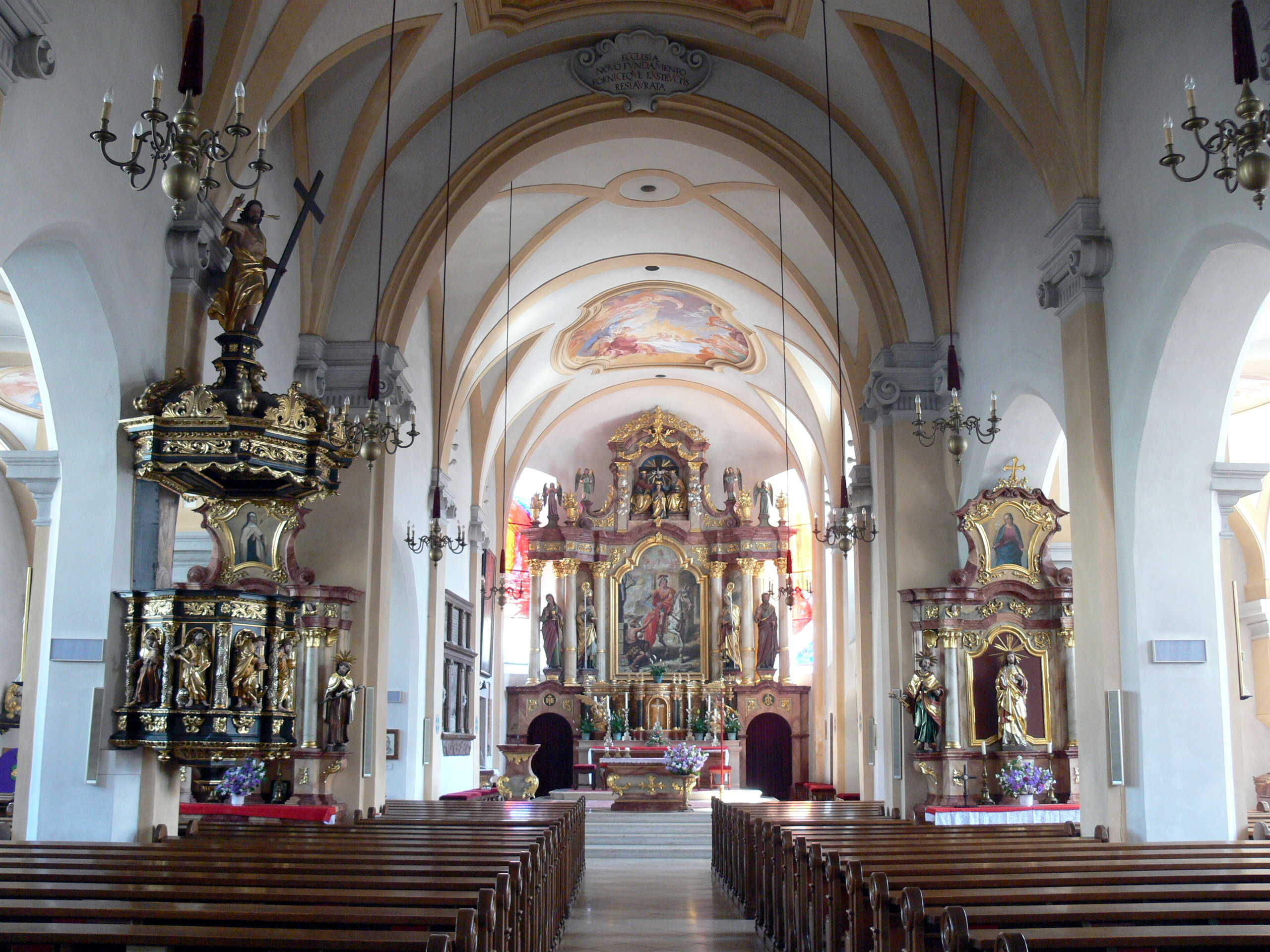 Grieskirchen - Saint Martin parish church: Interior.